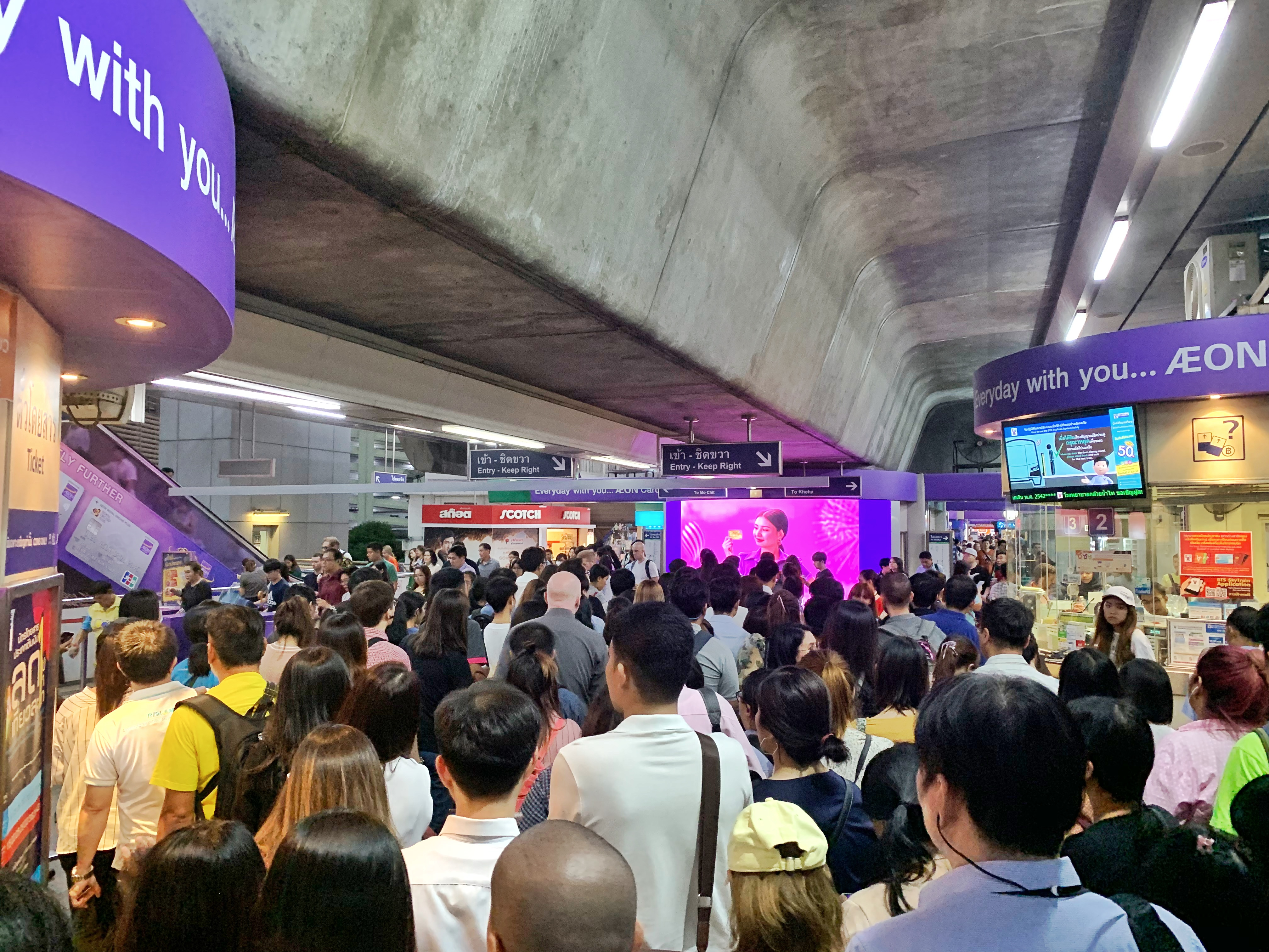 Crowds during rush hour at Asok station